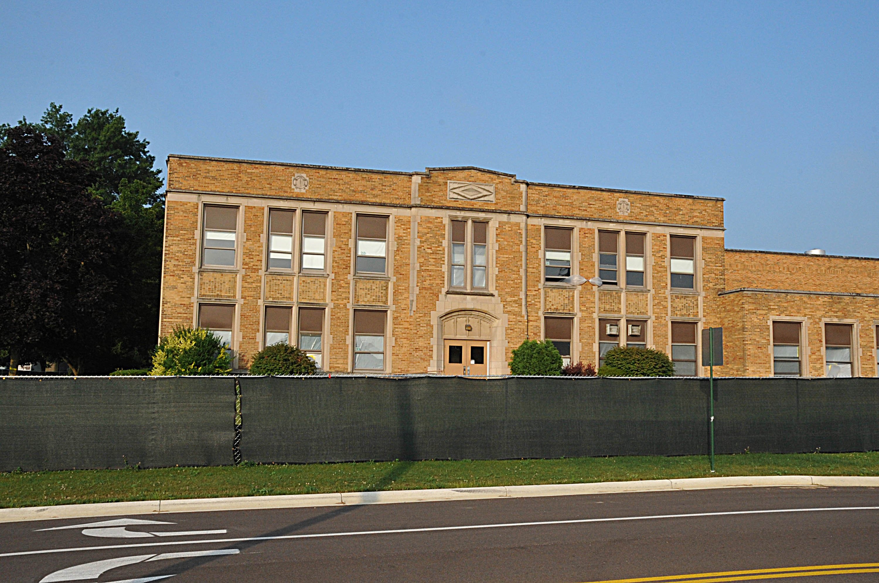 Constructed in 1939 and functioned as a high school until 1969 after which it became a middle school. It is now being renovated. It is completely surrounded by a green chain link fence.